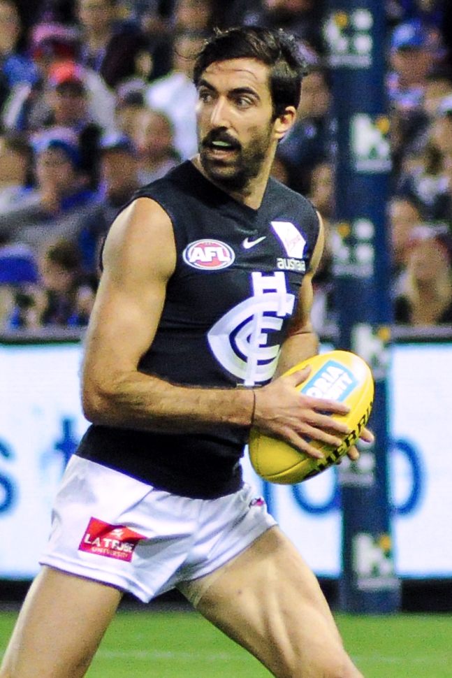 Kade Simpson during the AFL round six match between the Western Bulldogs and Carlton on Friday, 27 April 2018 at Etihad Stadium in Melbourne, Victoria.